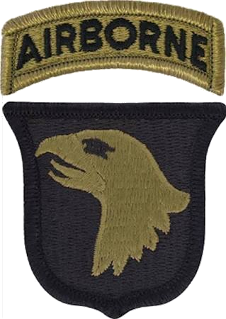 Patch of the United States Army 101st Airborne Division